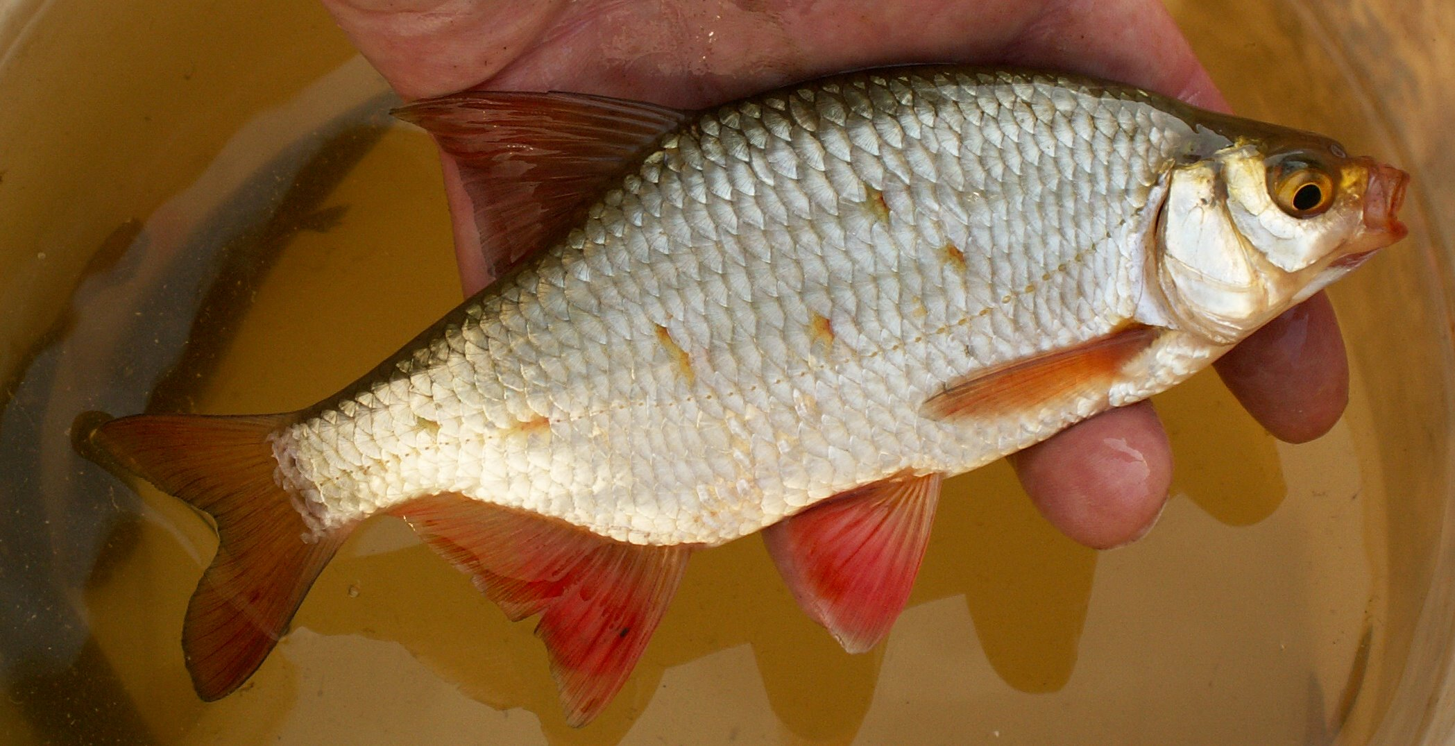 Hybrid of Rudd (Scardinius erythropthalmus) and probably Silver Bream (Blicca Bjoerkna) Rotterdam Overschie, The Netherlands, color of rudd and long anal fin of silver bream. (The hybrid of Scardinius erythropthalmus * carp bream I once caught was bronze colored with black fins and quite big, so it seems save to assume silver bream was the other parent. A picture of the rudd*bream can be found here for comparison: [1])